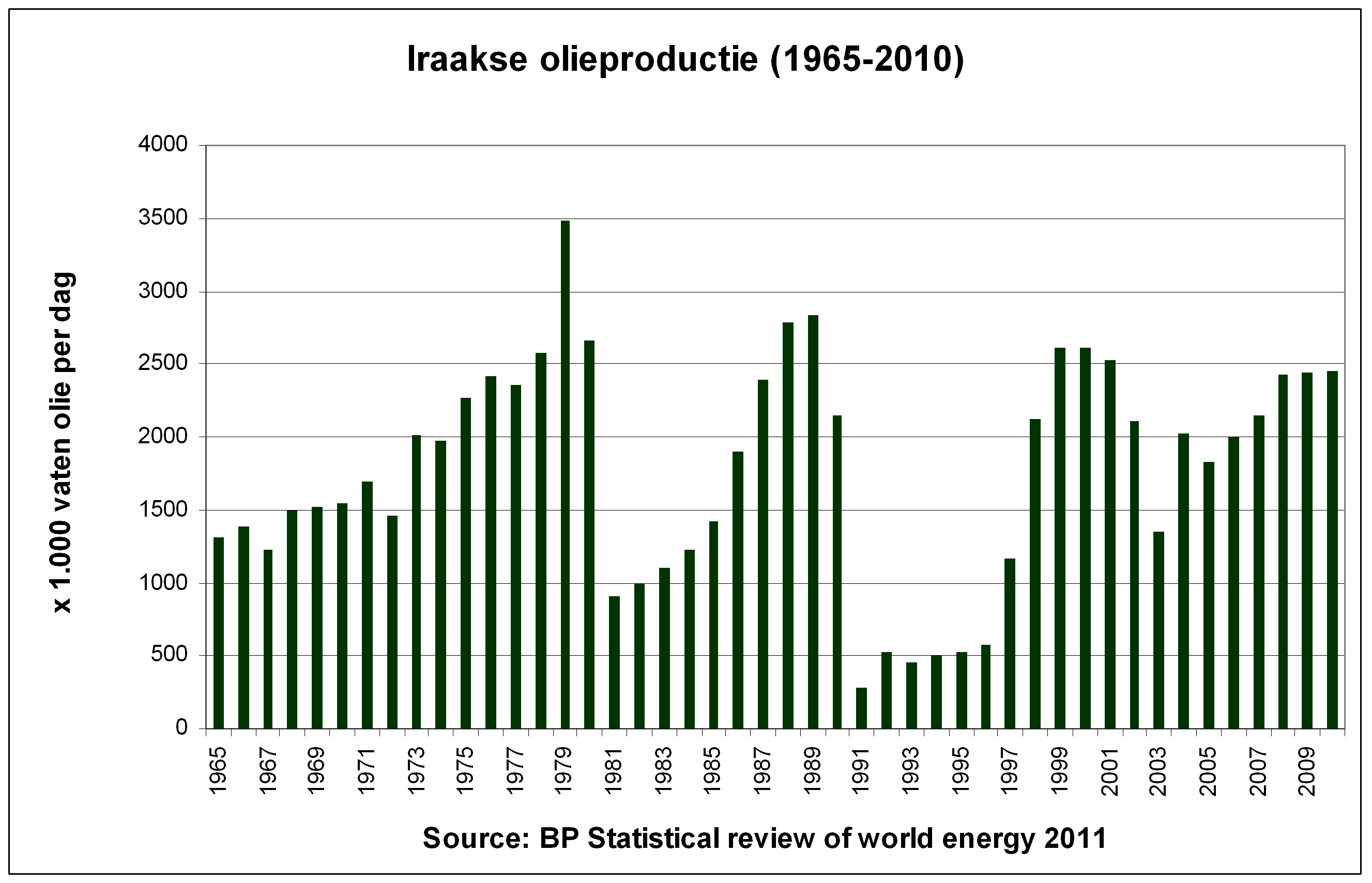 Overview of Iraqi oil production in the years 1965-2010. Data source: BP Statistical review of world energy 2011